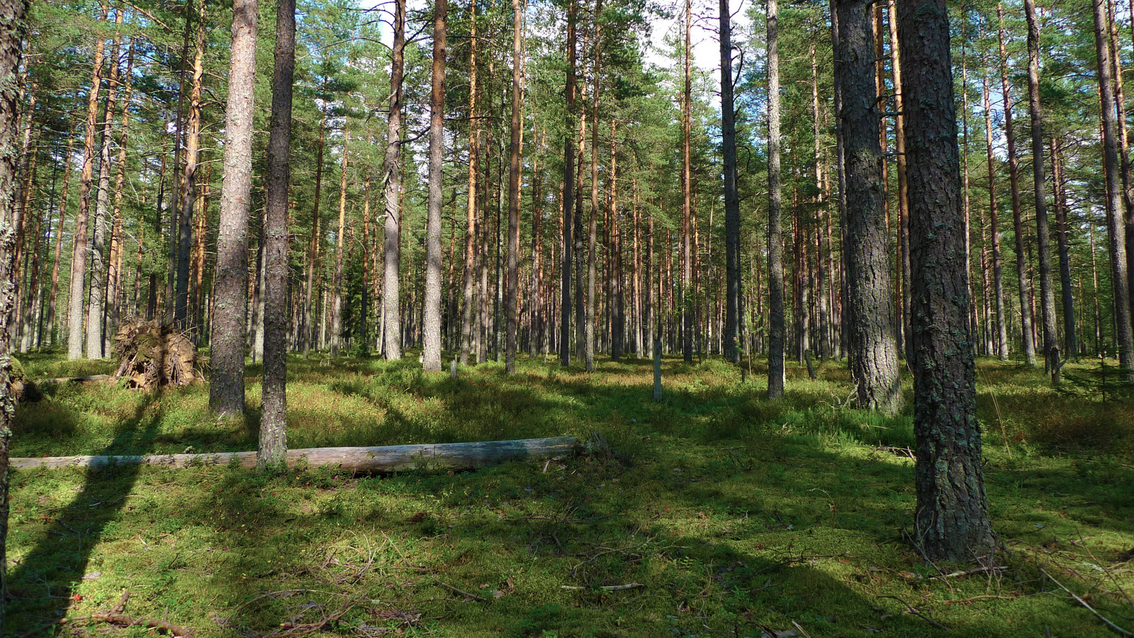 Pine forest at Leningrad Region